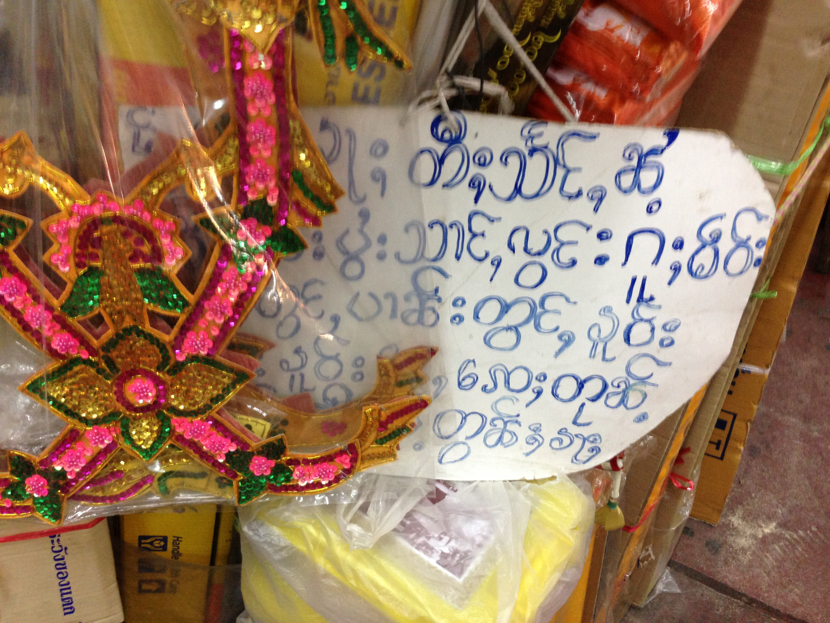 A sign written in Shan at a store in Chiamai, Thailand